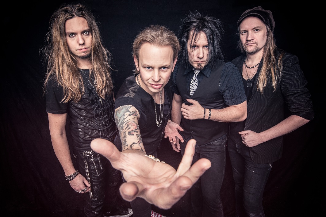 Eclipse 2017 promotional image